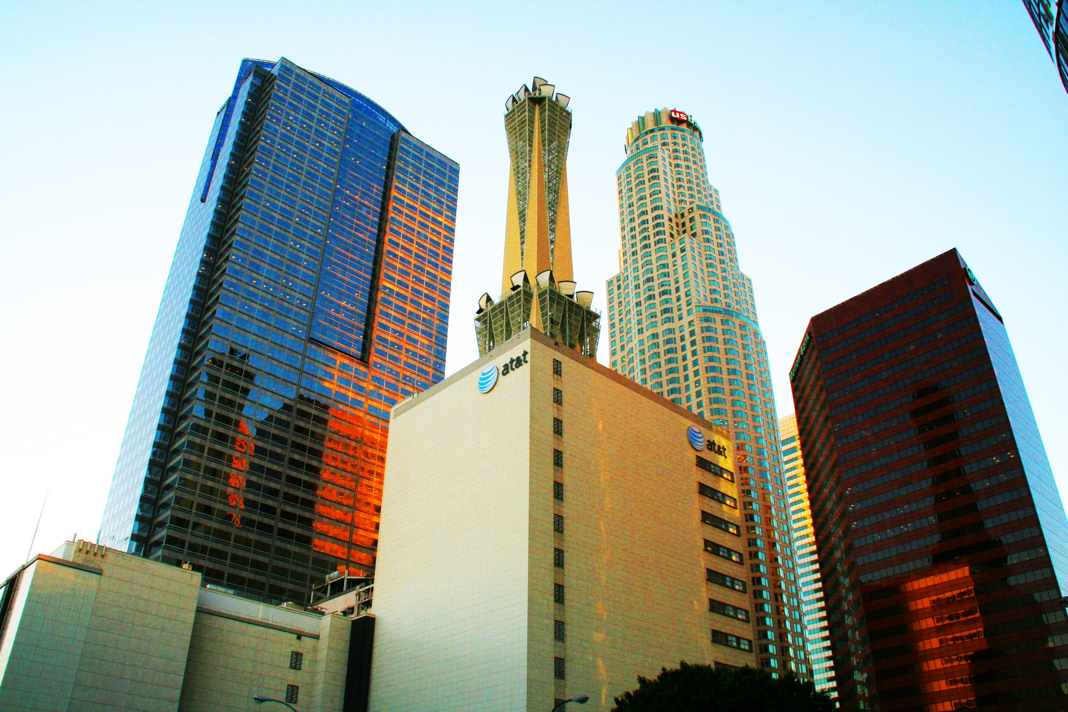 AT&T Building in Los Angeles, CA